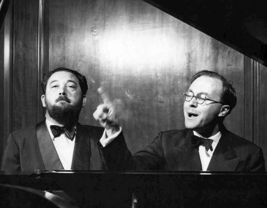 Photo of Michael Flanders and Daniel Swann from their 1959 revue At the Drop of a Hat. The show opened in the UK in 1956 and came to Broadway in 1959.